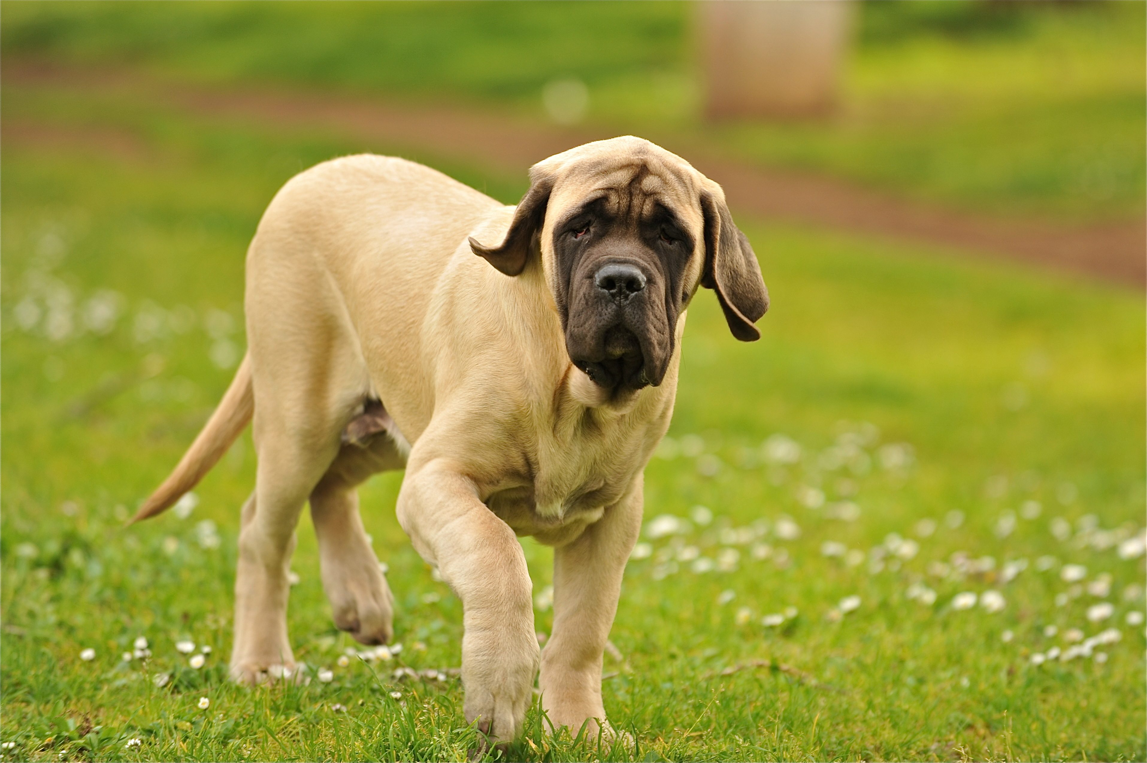 Spanish Mastiff Flickr